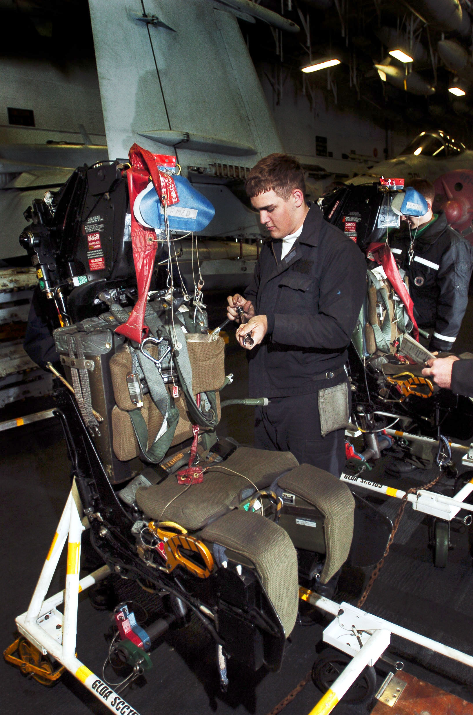 Northern Pacific Ocean (Jun. 16, 2004) - Aviation Structural Mechanic 3rd Class Robert Hall, of Whidbey Island, Wash., works on a rocket propelled ejection seat removed from the cockpit of an EA-6B Prowler assigned to the "Cougars" of Tactical Electronic Warfare Squadron One Three Nine (VAQ-139) embarked aboard USS John C. Stennis (CVN 74). Stennis and embarked Carrier Air Wing Fourteen (CVW-14) are currently at sea on a regularly scheduled deployment. Stennis is also one of seven aircraft carriers involved in Summer Pulse 2004. Summer Pulse 2004 is the simultaneous deployment of seven aircraft carrier strike groups (CSGs), demonstrating the ability of the Navy to provide credible combat power across the globe, in five theaters with other U.S., allied, and coalition military forces. Summer Pulse is the Navy’s first deployment under its new Fleet Response Plan (FRP). The Strike Group is conducting a scheduled training exercise followed by overseas pulse operations. U.S. Navy photo by Photographer's Mate 3rd Class Mark J. Rebilas (RELEASED) For more information go to